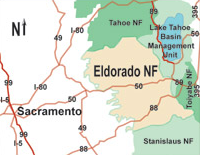 Map of the Eldorado National Forest in the central Sierra Nevada, eastern California. 72.9% of the forest is located within El Dorado County, California. The forest is also spelled "El Dorado National Forest".